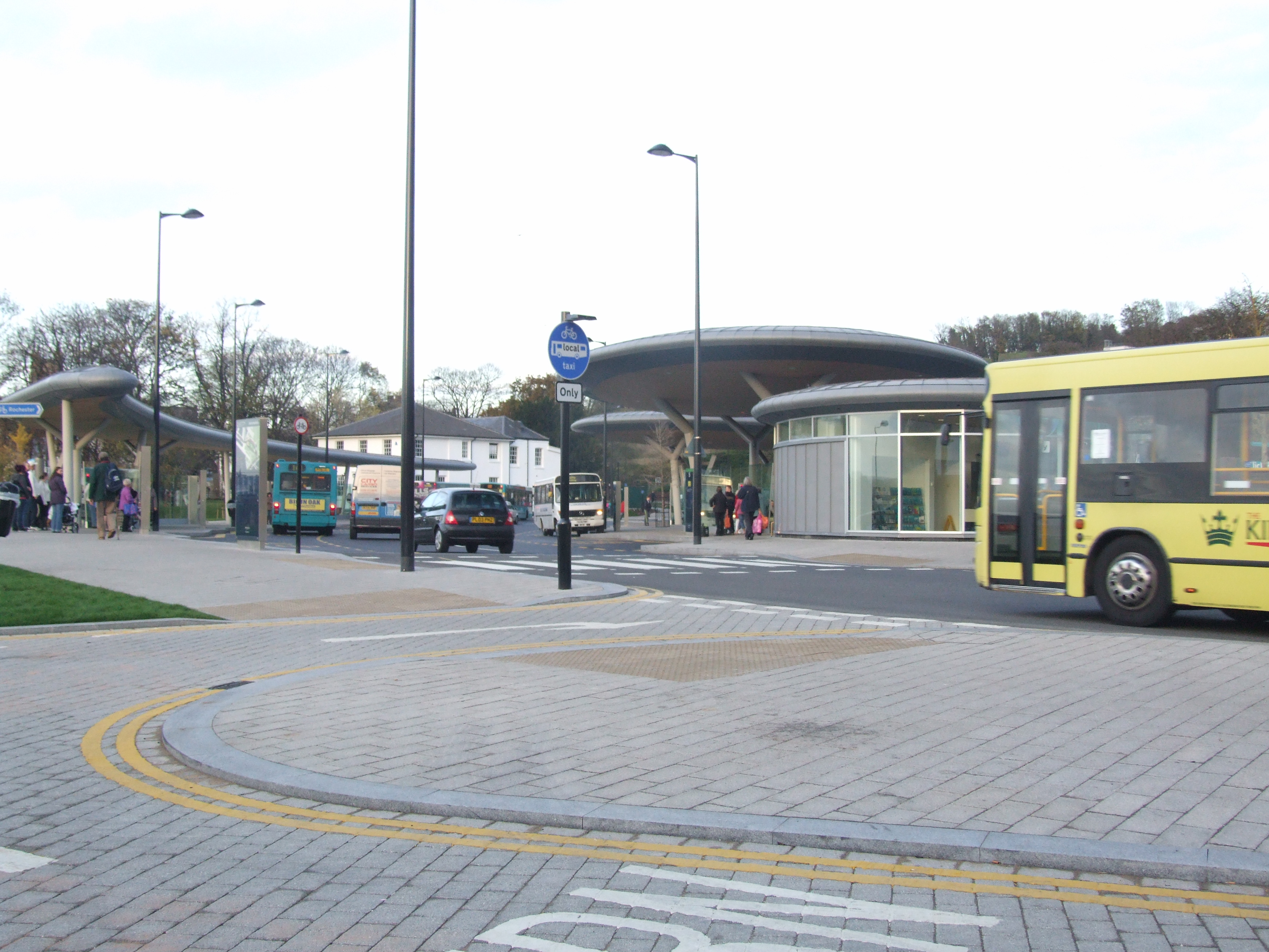 Chatham, Kent The bus station constructed in 2011. It really takes prizes for bad town planning and design. In addition it severs an import road link between Rochester and the Civic Centre and Gillingham. The mushrooms are supposed to give some protection from the weather! And those are the generous terminal buildings.